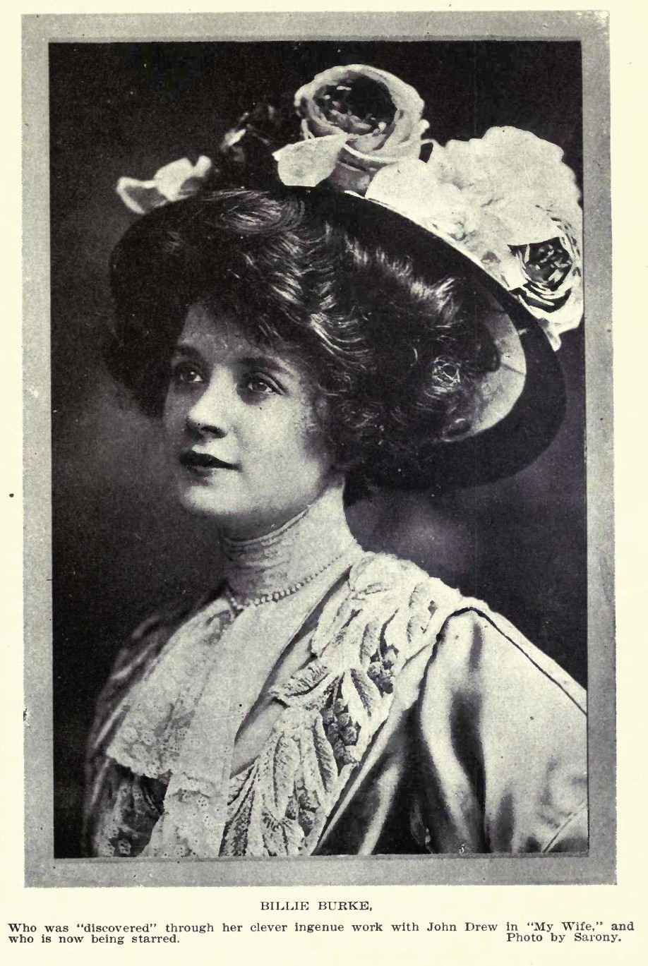 Portrait of Billie Burke from Overland Monthly, February 1909